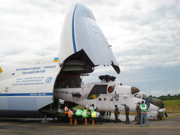 A team of MONUSCO MOVCON is loading an MI-24 helicopter onboard an Antonov cargo aircraft at Kisangani airport, in the Eastern province. MOVCON is a division in MONUSCO responsible for the mission’s logistical movements across the country.